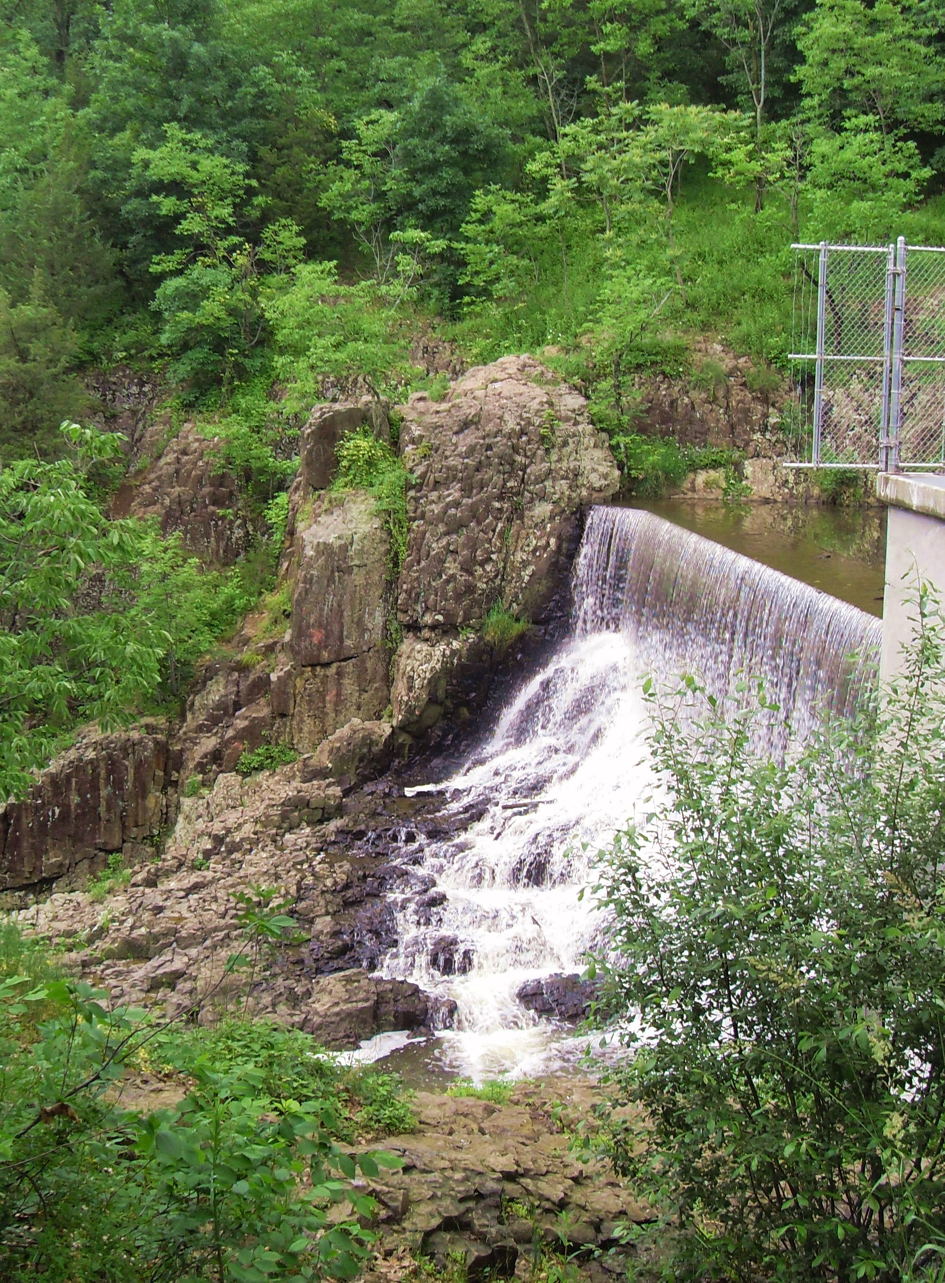 Buttermilk Falls, East Branch of the Middle Brook, Somerset County